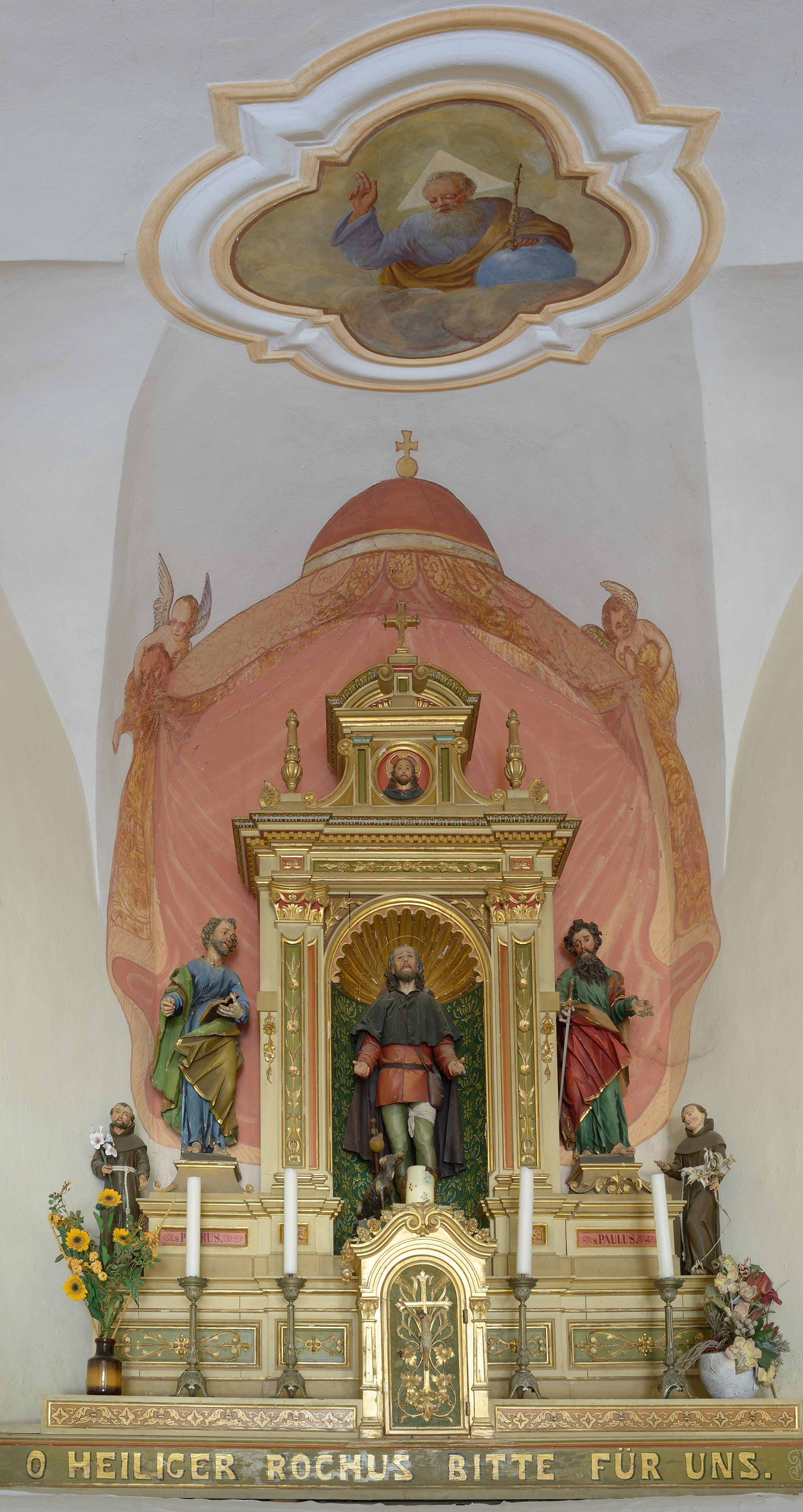 Altar of Saint Roch Chapel at Fonteklaus in Lajen 17th century